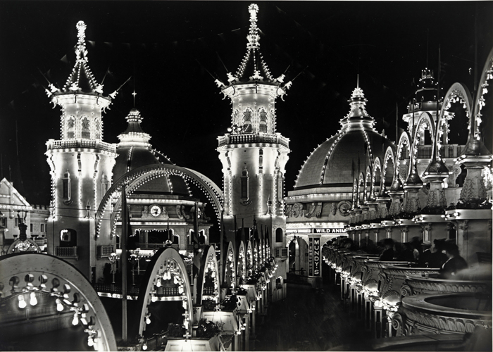 Luna Park at night in 1906.